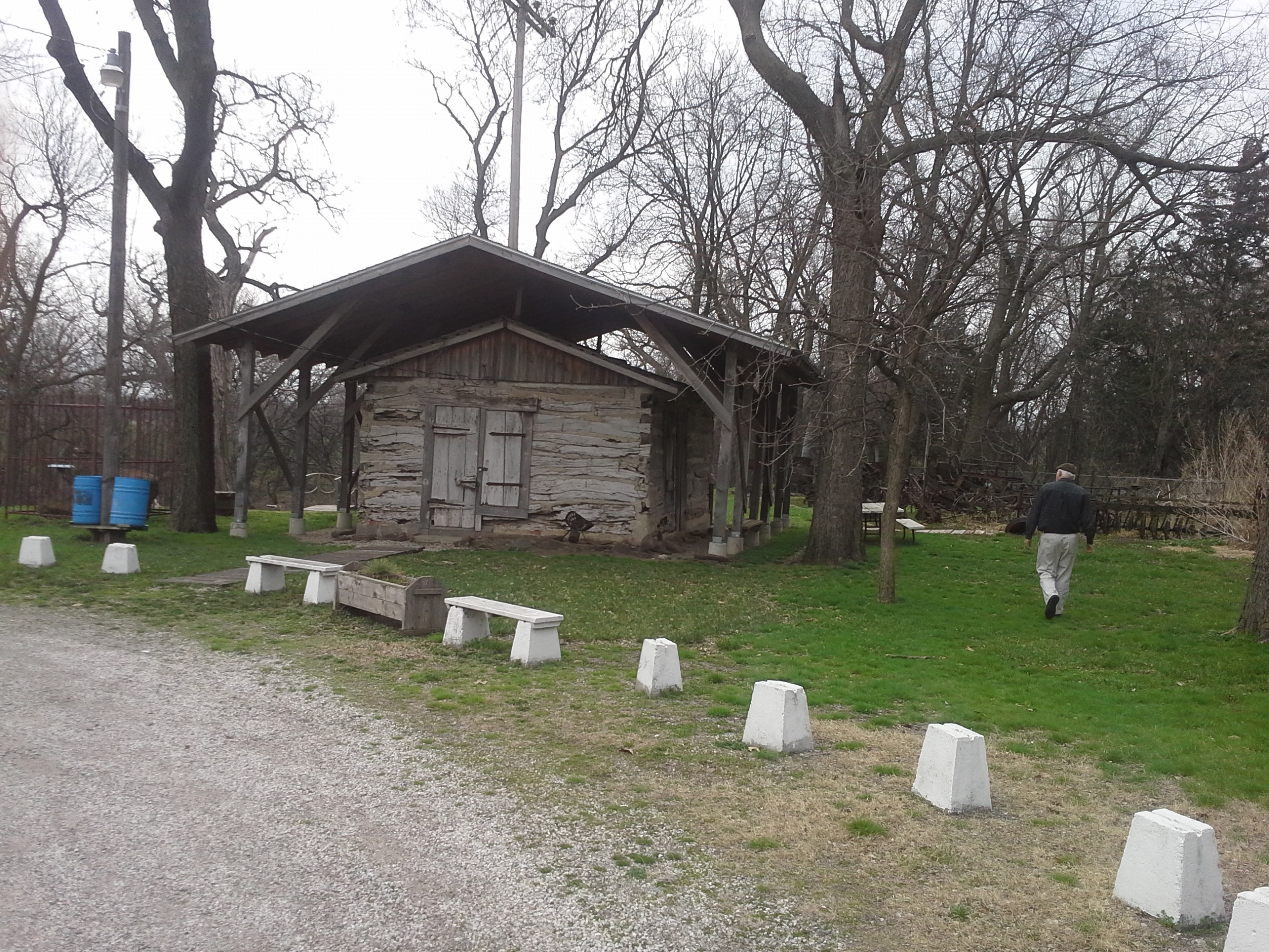 Log cabin at McPherson County Old Mill Museum in Lindsborg Kansas KS USA